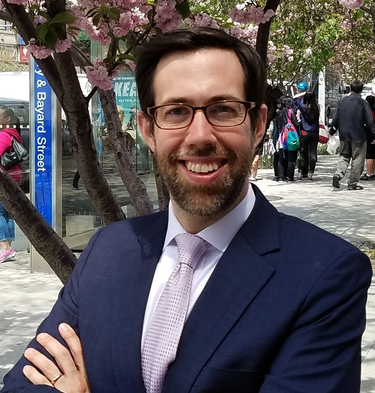 Headshot of Daniel Squadron